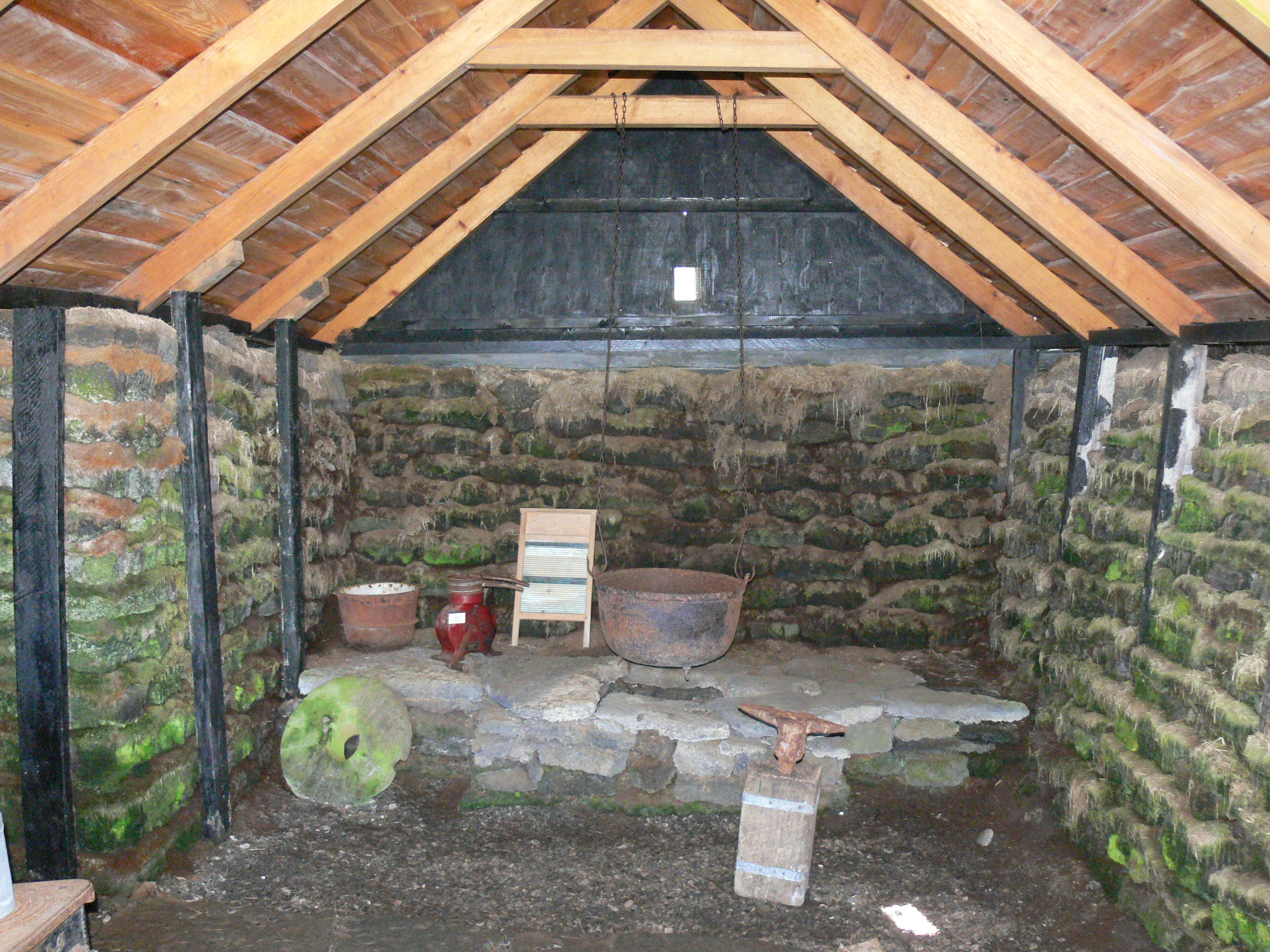 Hellisandur. Seaman´s museum: Interior.